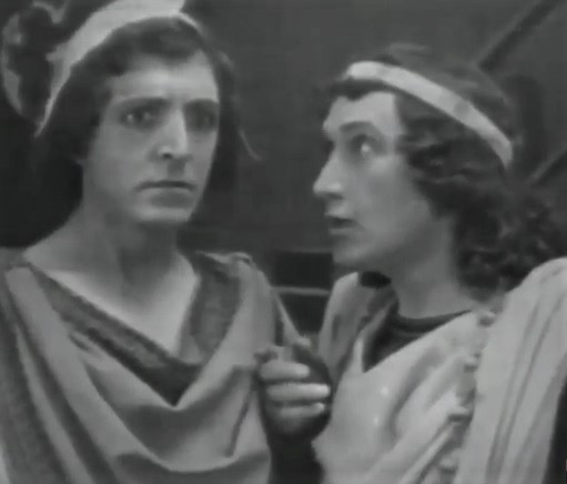 Edwin Stanley (left) & Hector Dion in King Lear - cropped screenshot